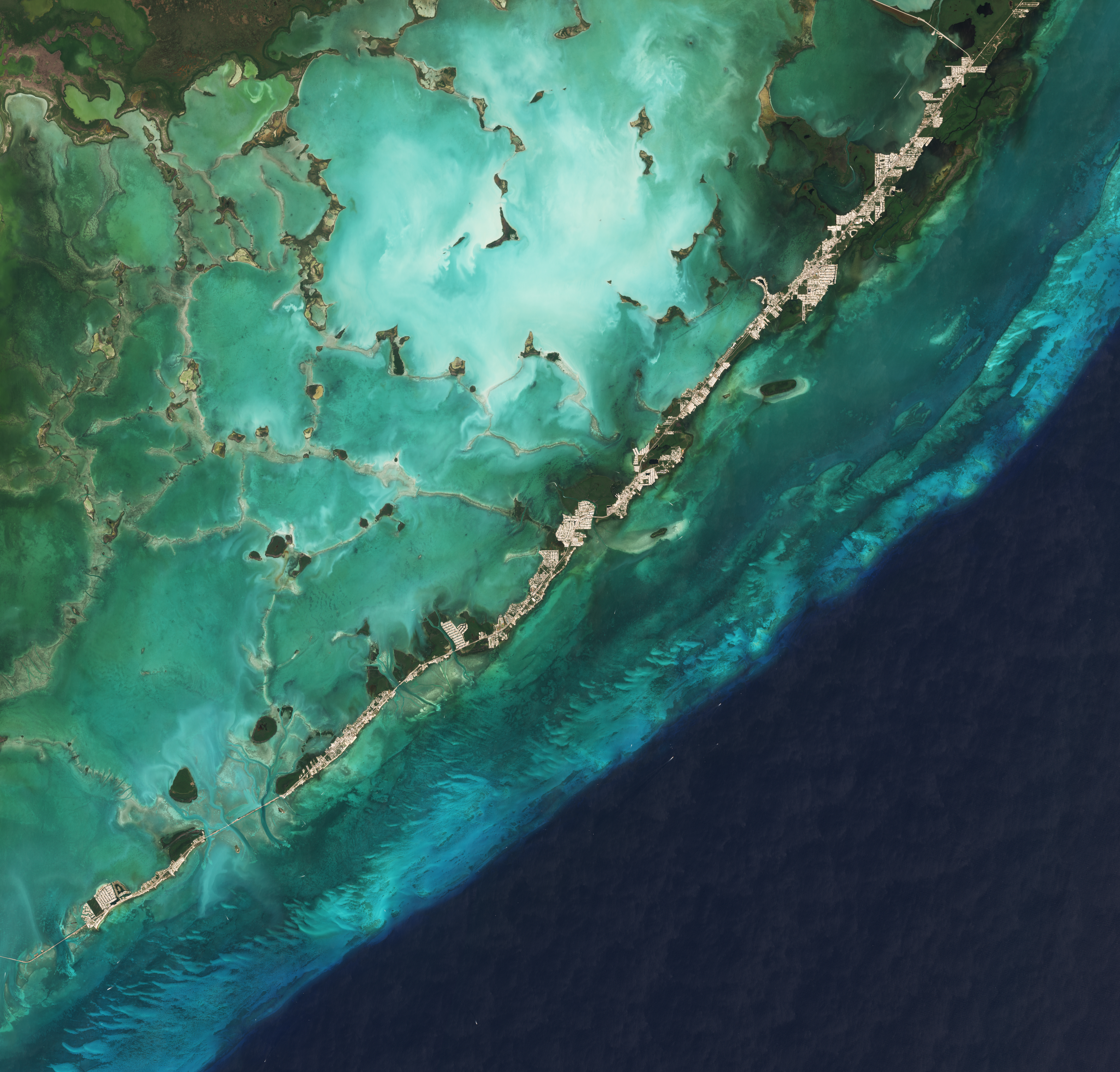 Date: 2019-03-22 Sensor: MSI on Sentinel-2B Resolution: 10m RGB Composites: True color, Band 4-3-2